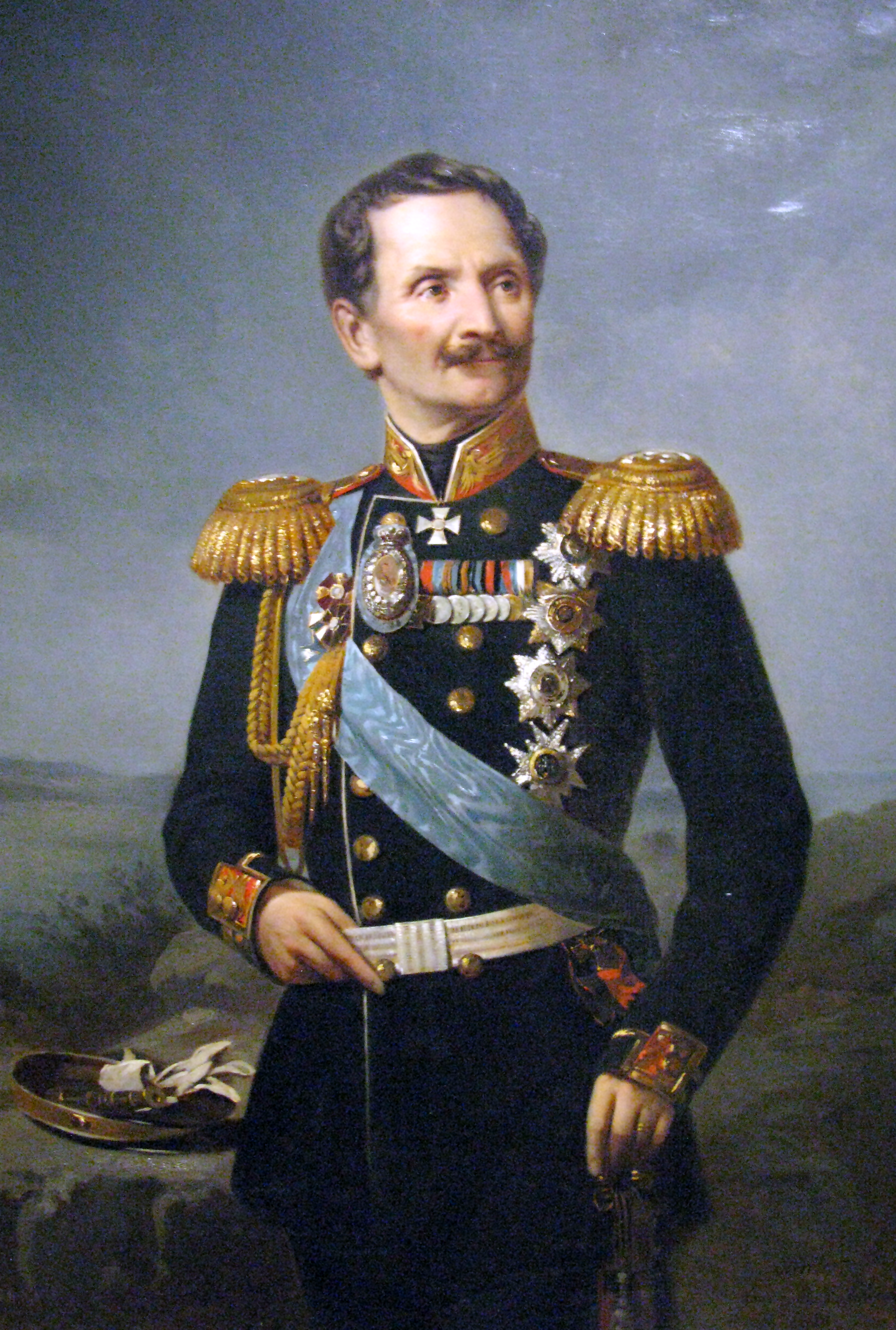 Friedrich Wilhelm Rembert von Berg